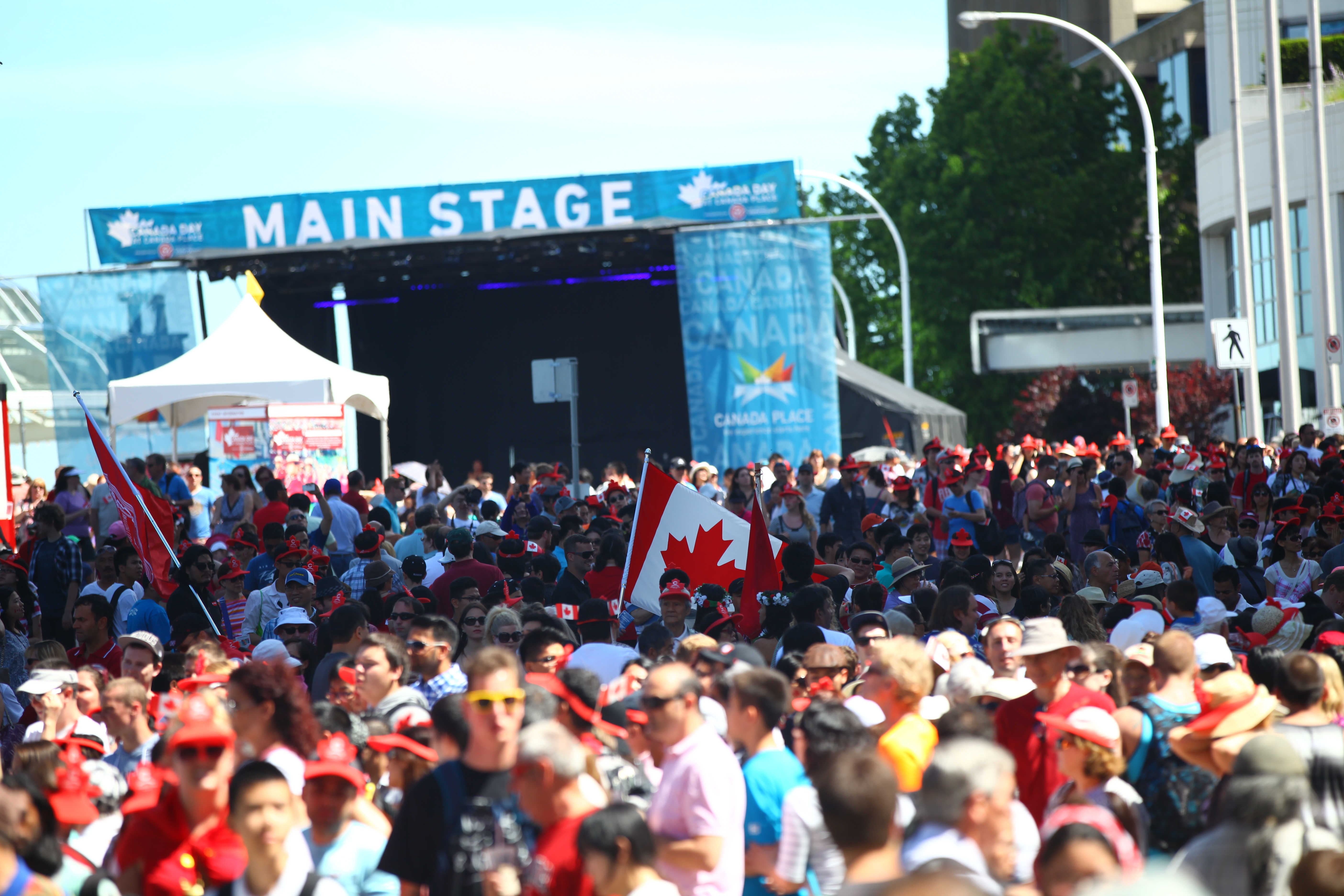 Canada Day